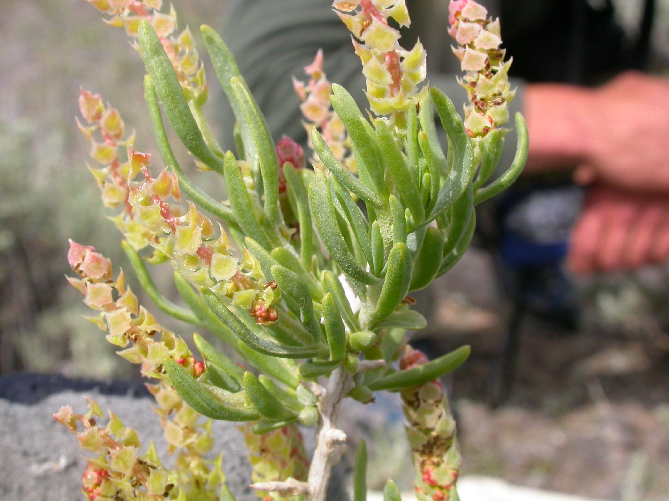 Sarcobatus vermiculatus is common in a variety of settings but mostly involving alkaline or clayey soils. Regardless, this shrub sometimes occurs in the sagebrush steppe community.